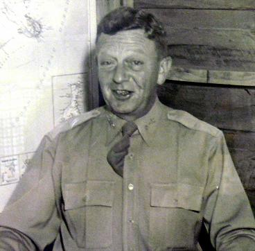 General Leonard "Red" Wing at his desk in the South Pacific during World War II. Section of larger wall mural photo on display at Rutland, Vermont National Guard armory.